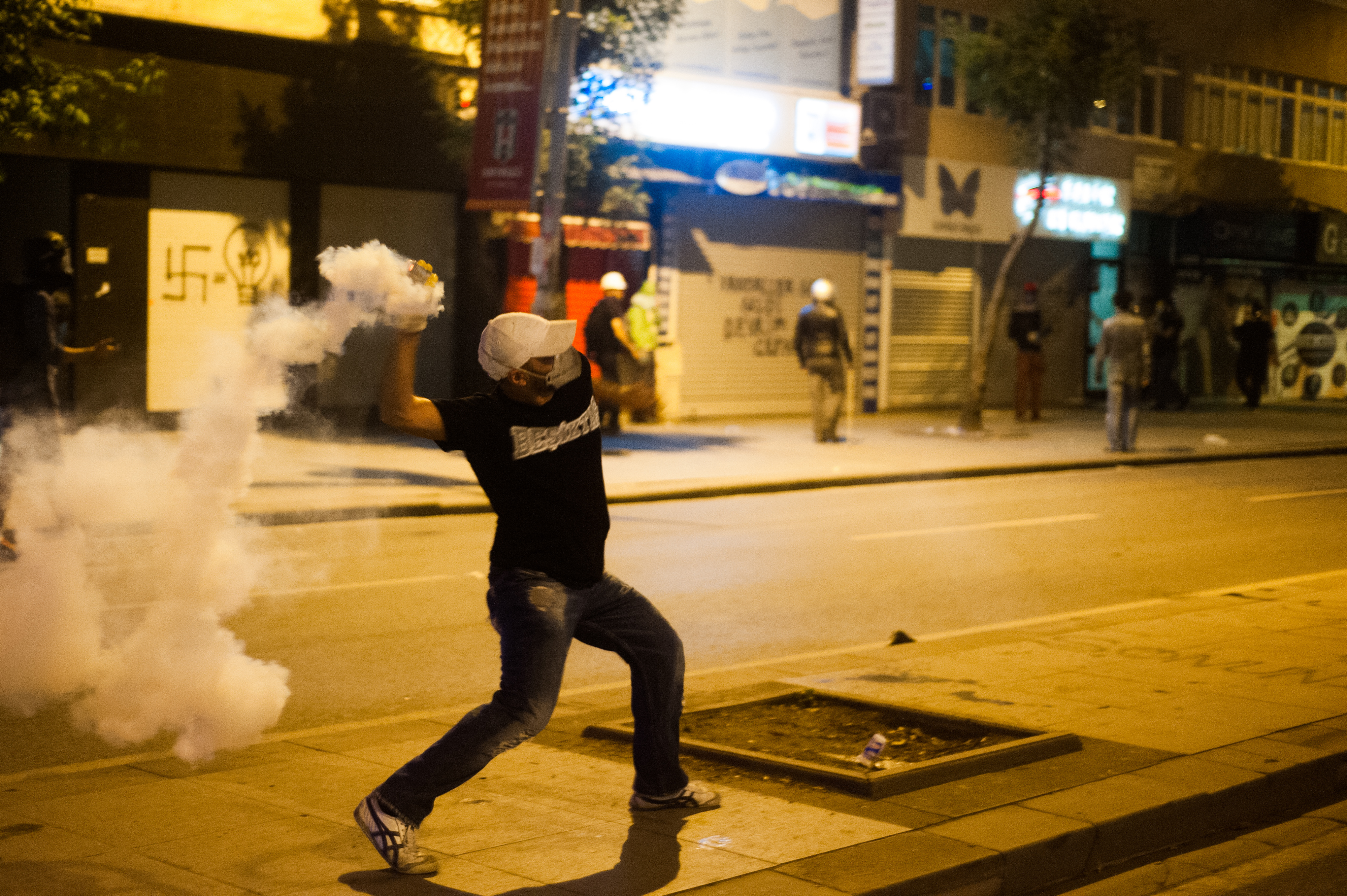 Protesters action during Gezi park night protests. Events of June 15, 2013.